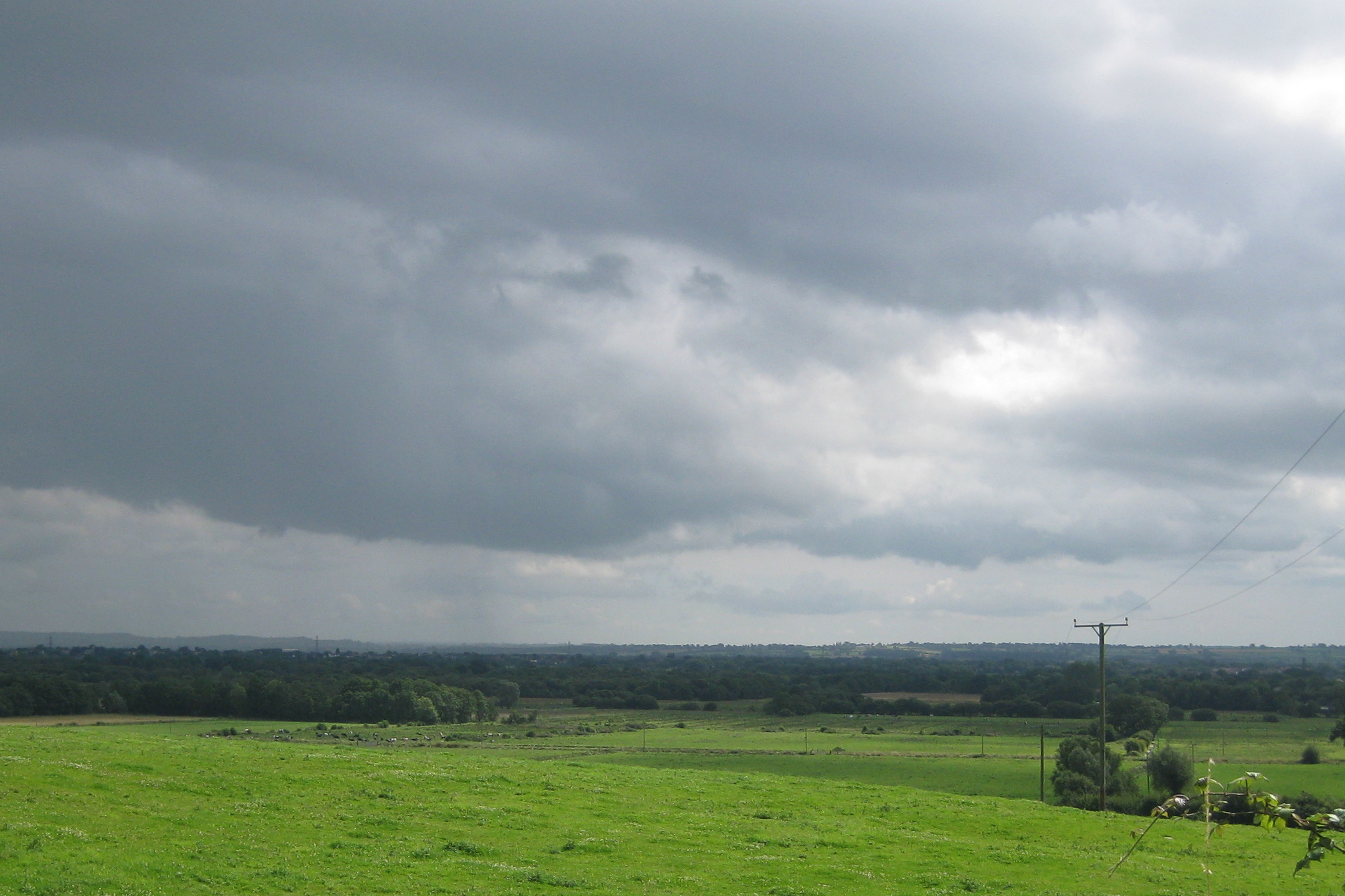 Westhay Moor, from Mudgley, Somerset, UK